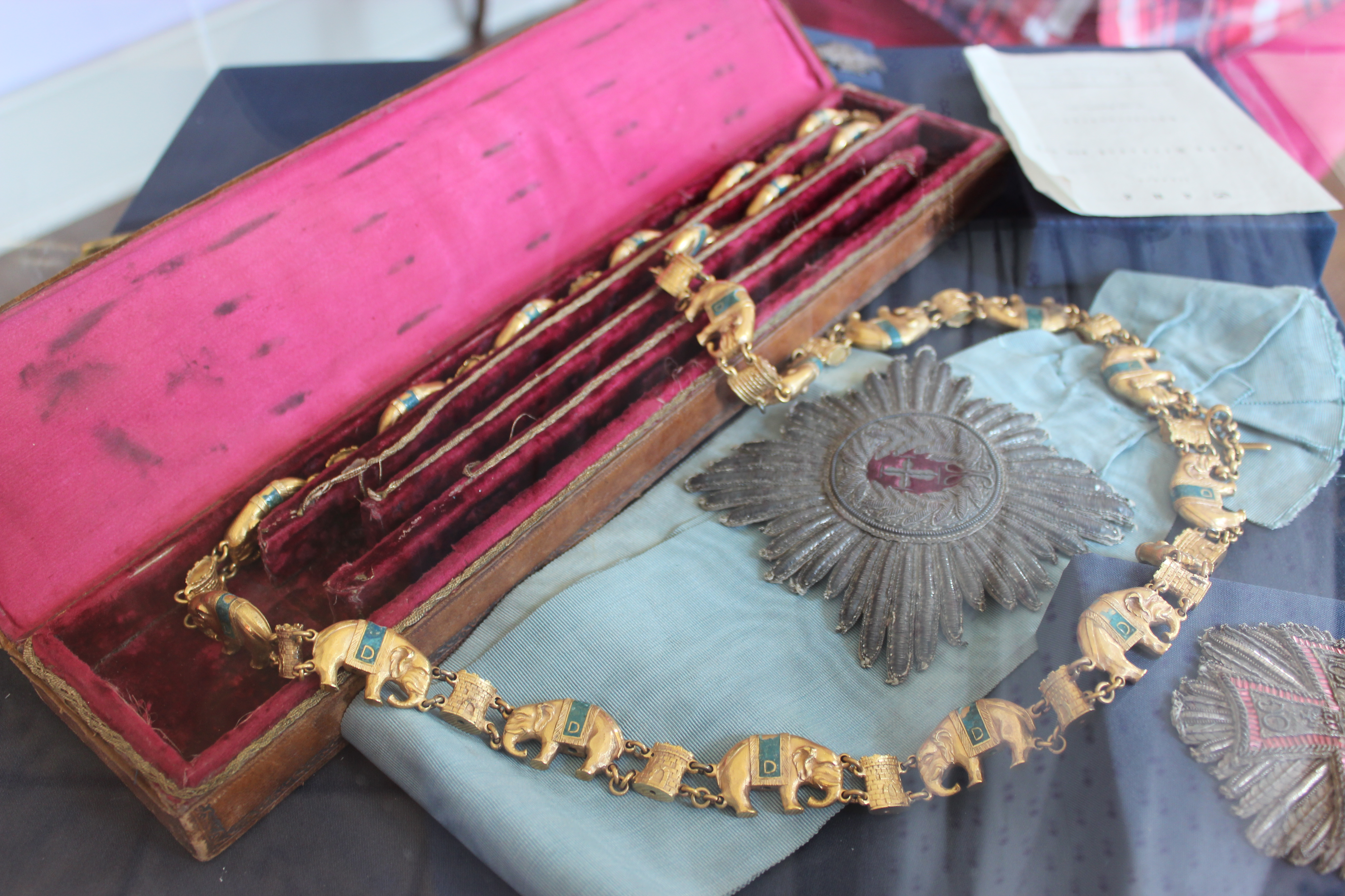 Danish Order of the Elephant